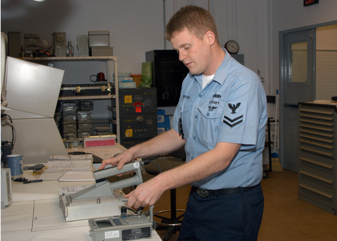 Rota, Spain (Feb. 4, 2007) - Electronics Technician 2nd Class Shea Thompson tests an Alpha Particle Detection Probe. Rota's Radiation Detection, Indication and Computation (RADIAC) lab calibrates equipment for Commander, U.S. 6th Fleet, units and military sealift command ships. U.S. Navy photo by Mass Communication Specialist 2nd Class Glen Dennis (RELEASED)